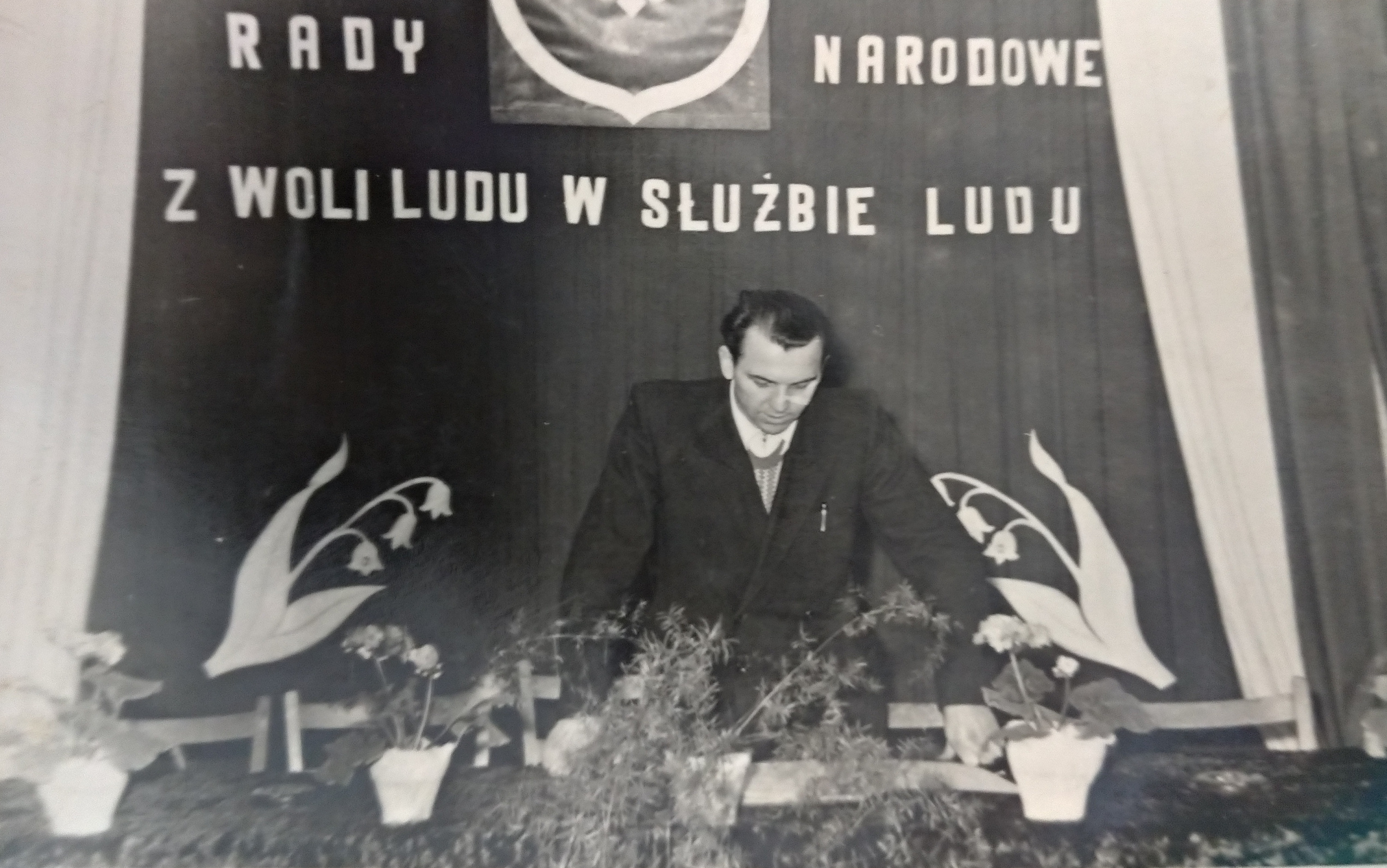 Tadeusz Wasil